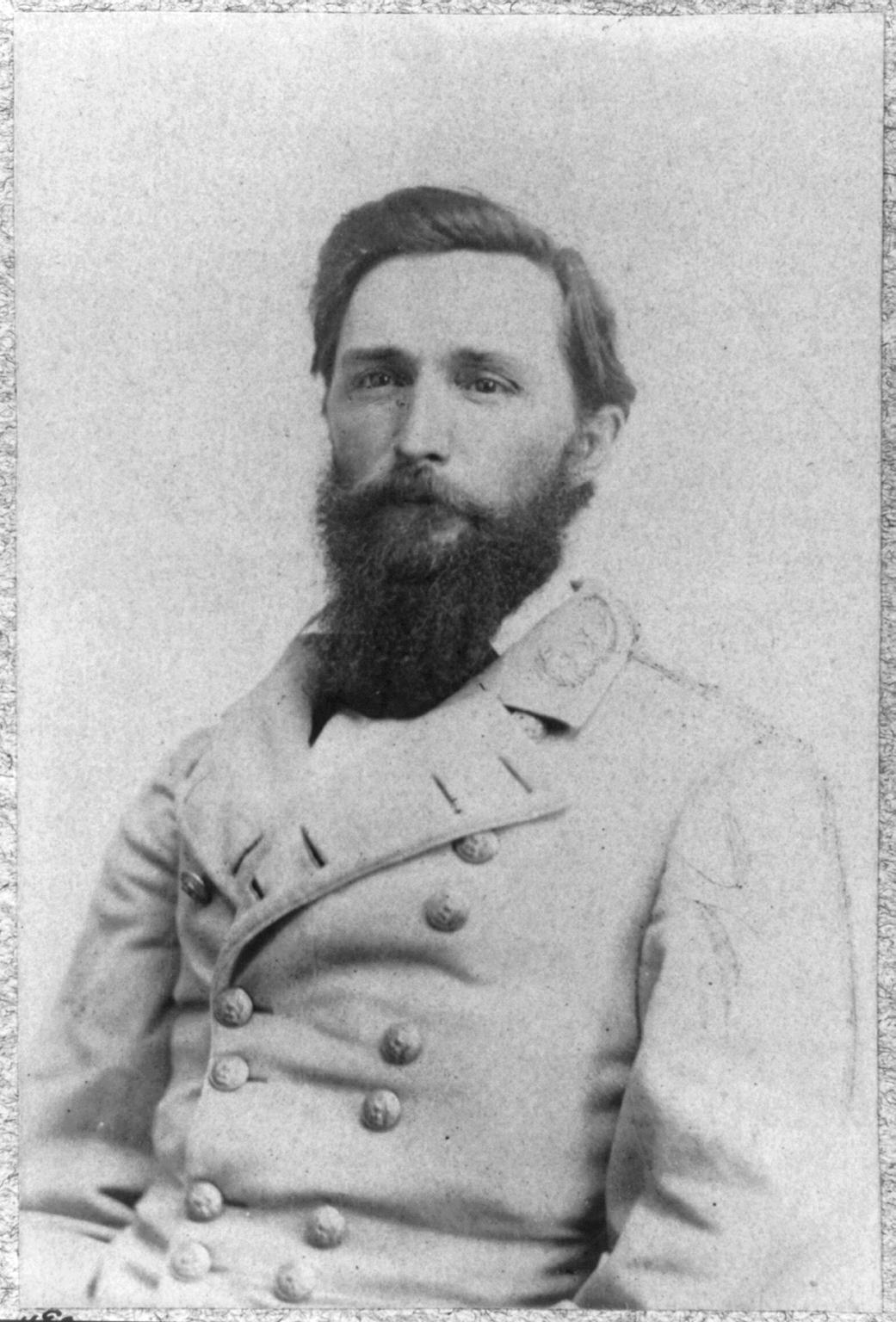 The commander of the famed Colquitt’s Brigade, he led Confederate troops in some of the most desperate fighting of the war. Part of Stonewall Jackson’s command, Colquitt and his men fought at the Battles of South Mountain, Antietam, Fredericksburg and Chancellorsville.